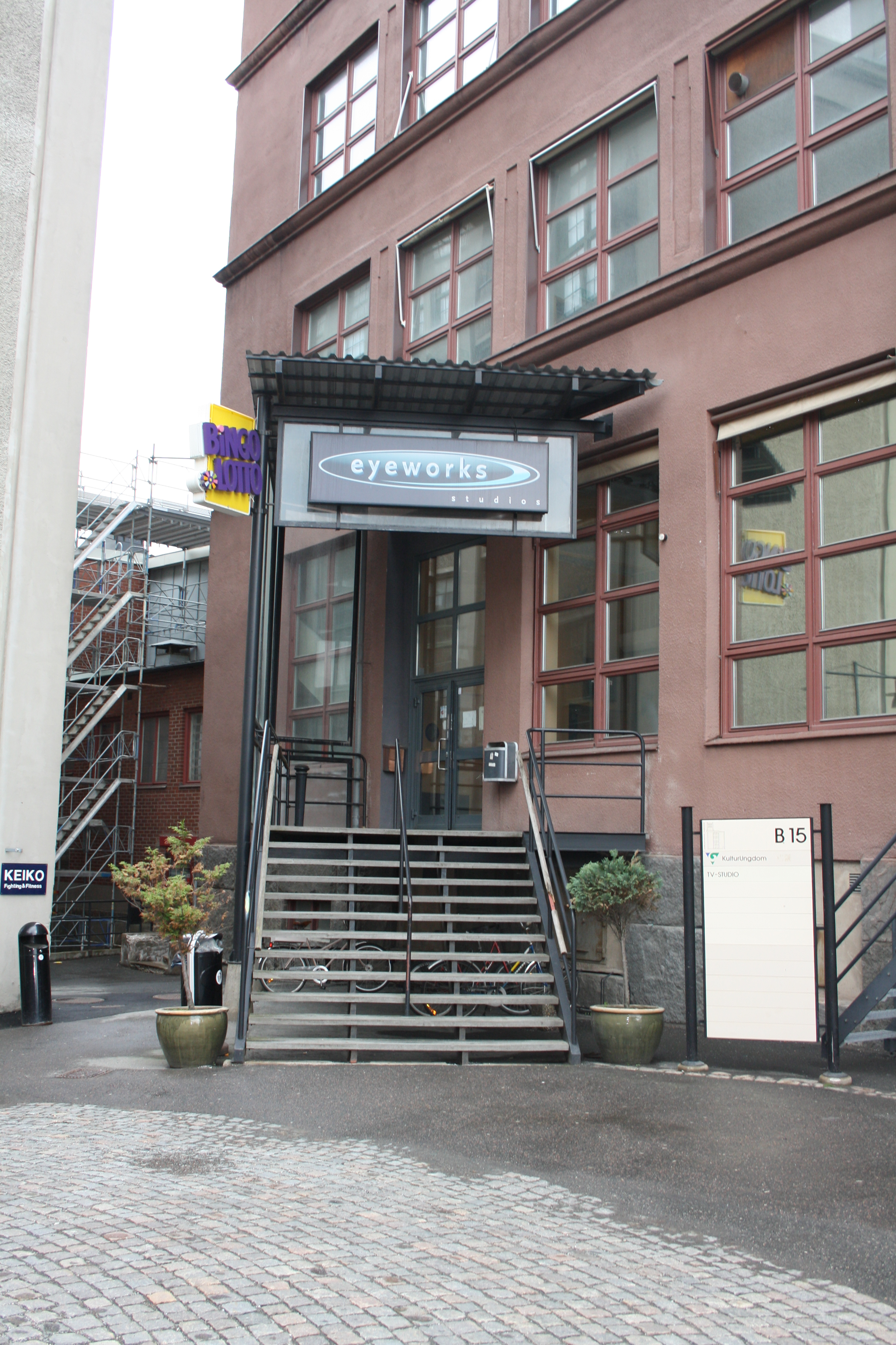 TV-studio, Eyeworks, Gothenburg, Sweden